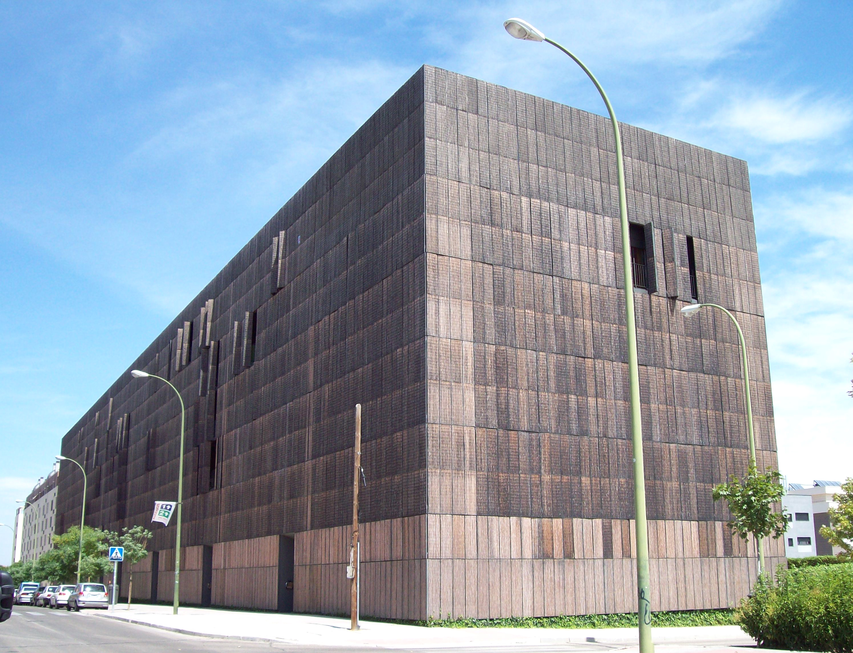 Façade of Edificio Bambú (literally "Bamboo Building") in Madrid (Spain).